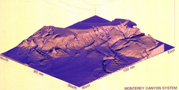 3-D computer image of the Monterey Canyon system, from the NOAA Photo Library. Description from website: "3-Dimensional image of Monterey Canyon system, Pioneer and Guide Seamounts, and approximately 9,000 square nautical miles of continental slope area. This image was derived from approximately 4,000,000 soundings acquired by the NOAA Exclusiv e Economic Zone Mapping Project. At the time this was made, it was the largest computer-generated 3-D view of the seafloor ever generated by multi-beam data. Image ID: ship3180, Voyage To Inner Space - Exploring the Seas With NOAA Collect Location: California, Monterey Bay area Photo Date: 1989 Photographer: Image generated by Steve Matula, NOS"